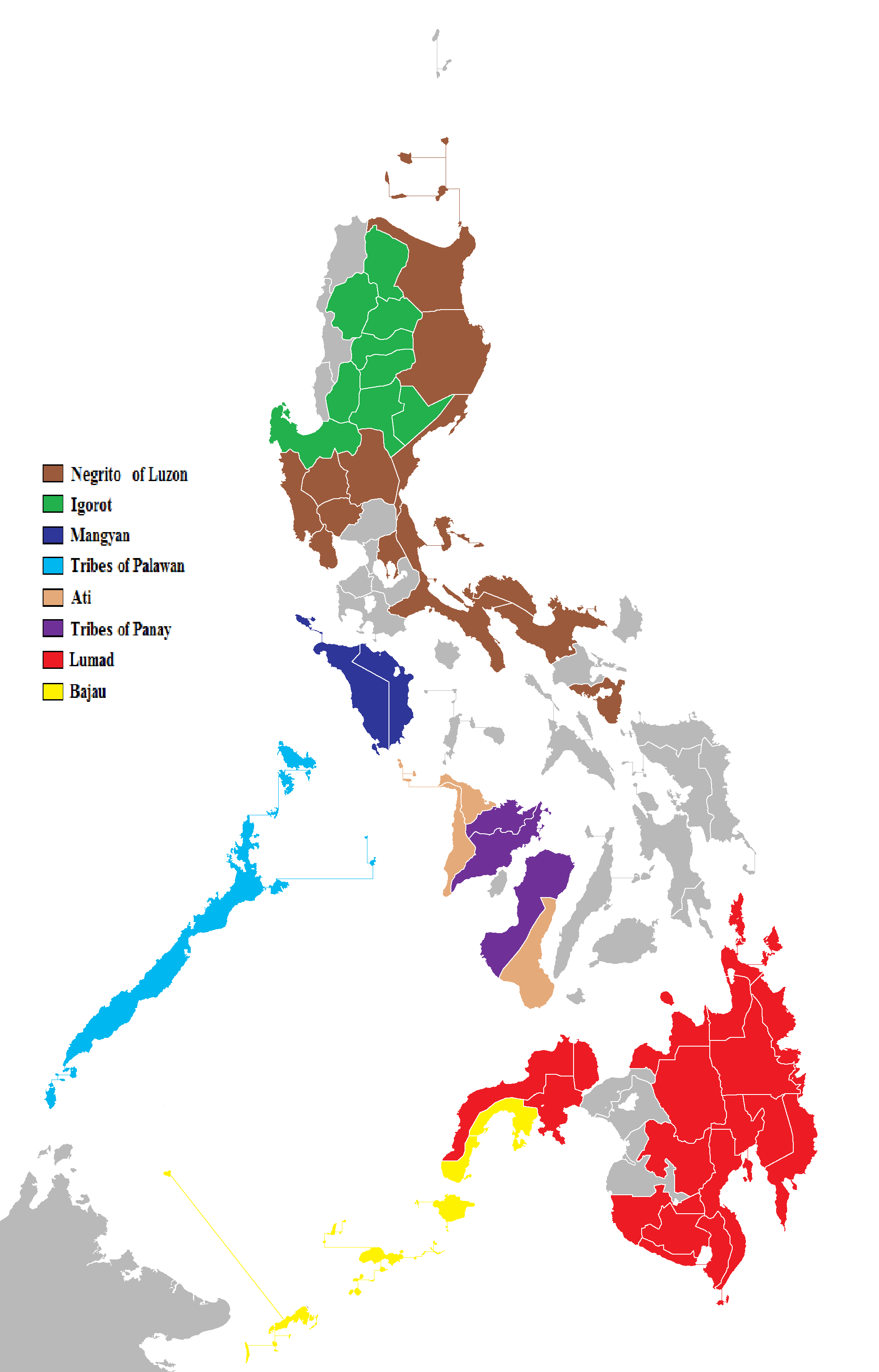 Traditional homelands of the indigenous peoples of the Philippines islands — by contemporary regions and provinces.